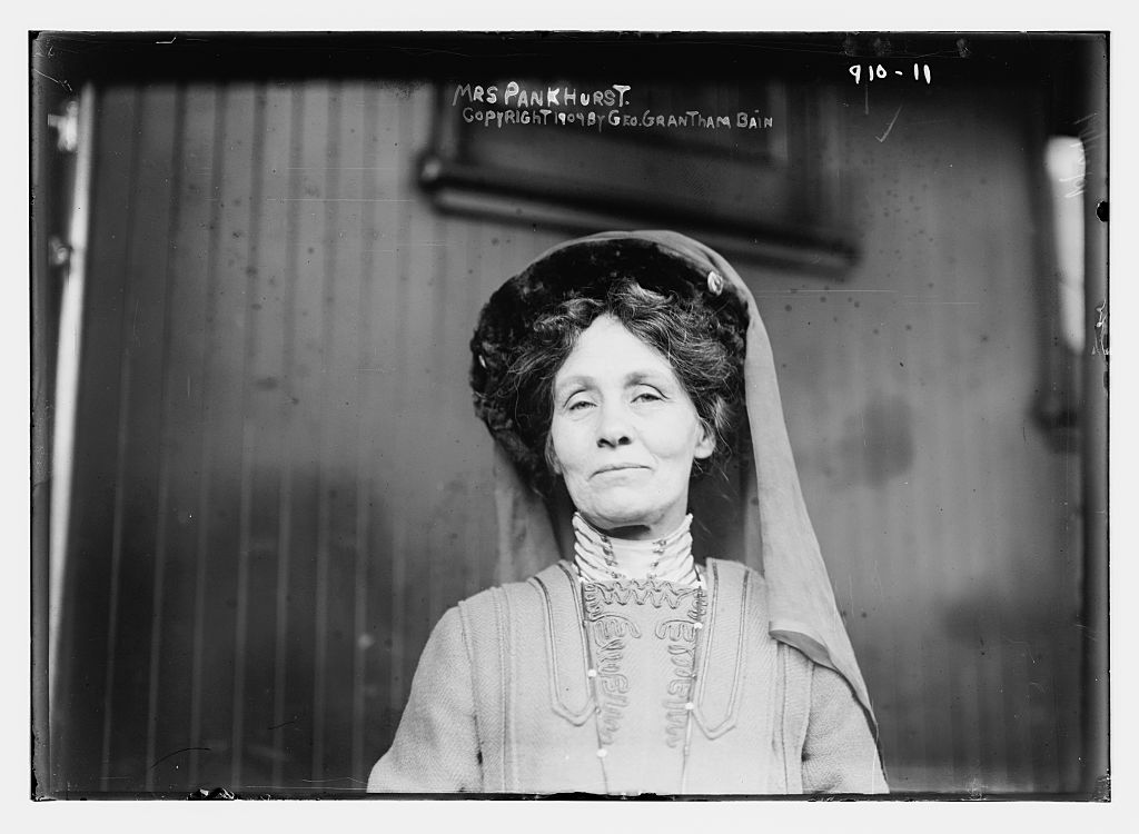 Mrs. Pankhurst